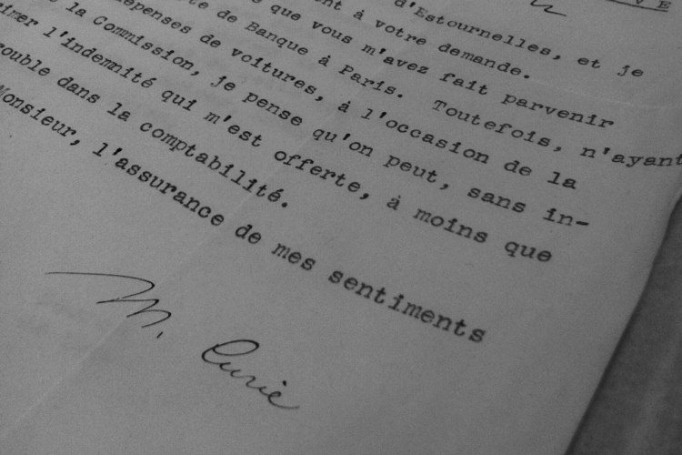 Signature of Marie Skłodowska Curie Archives of the International Committee on Intellectual Cooperation (League of Nations), UN Geneva. Source: Grandjean, Martin (2013) Archives en images : Quelques aperçus de la Commission de coopération intellectuelle.